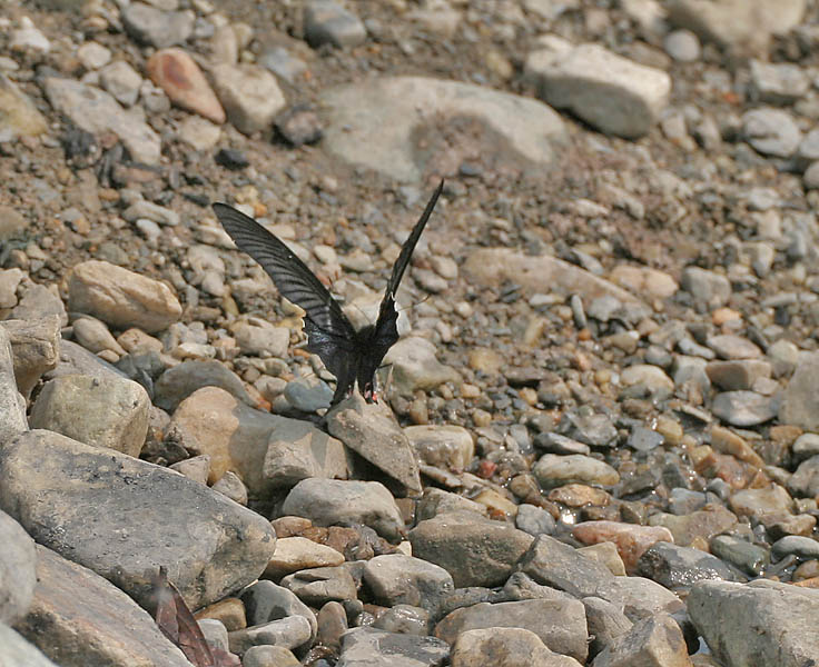 Redbreast Princeps alcmenor at Jayanti in Buxa Tiger Reserve in Jalpaiguri district of West Bengal, India.